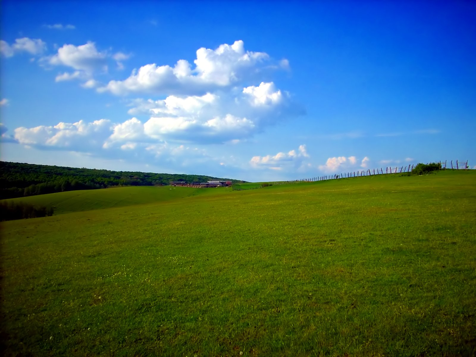 Landscape, near Szentliszló, Hungary.